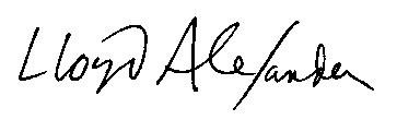 Signature of American author Lloyd Alexander (1924-2007)